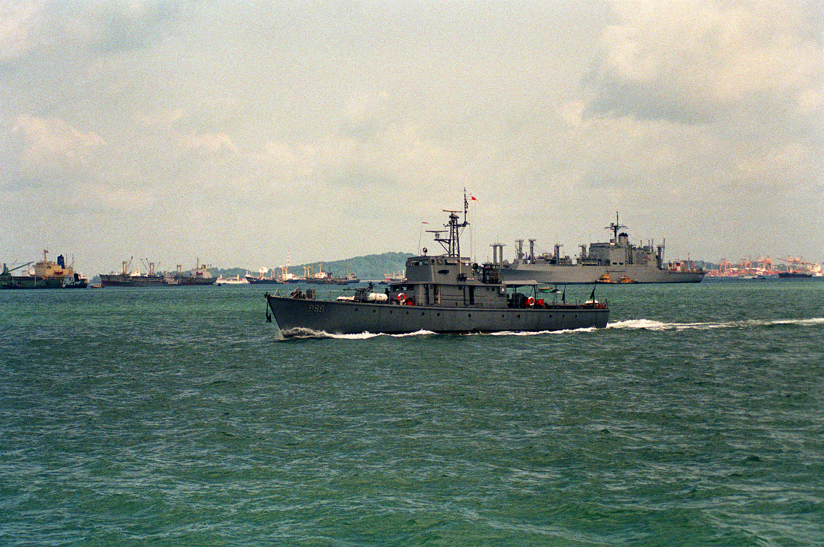 A port bow view of the Singapore training ship RSS PANGLIMA (P-68) underway.